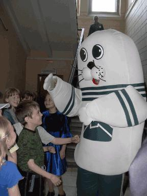 Title: Nerpa Festival in Irkutsk, Siberia, Russia in 2003 Made by Alex Nevzorov